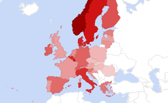 The map displays national shadow economies per capita in the EU. The numbers are generated dividing national shadow economy data ("The Shadow Economy in Europe 2013, Friedrich Schneider, University of Linz) by official population data (EUROSTAT).